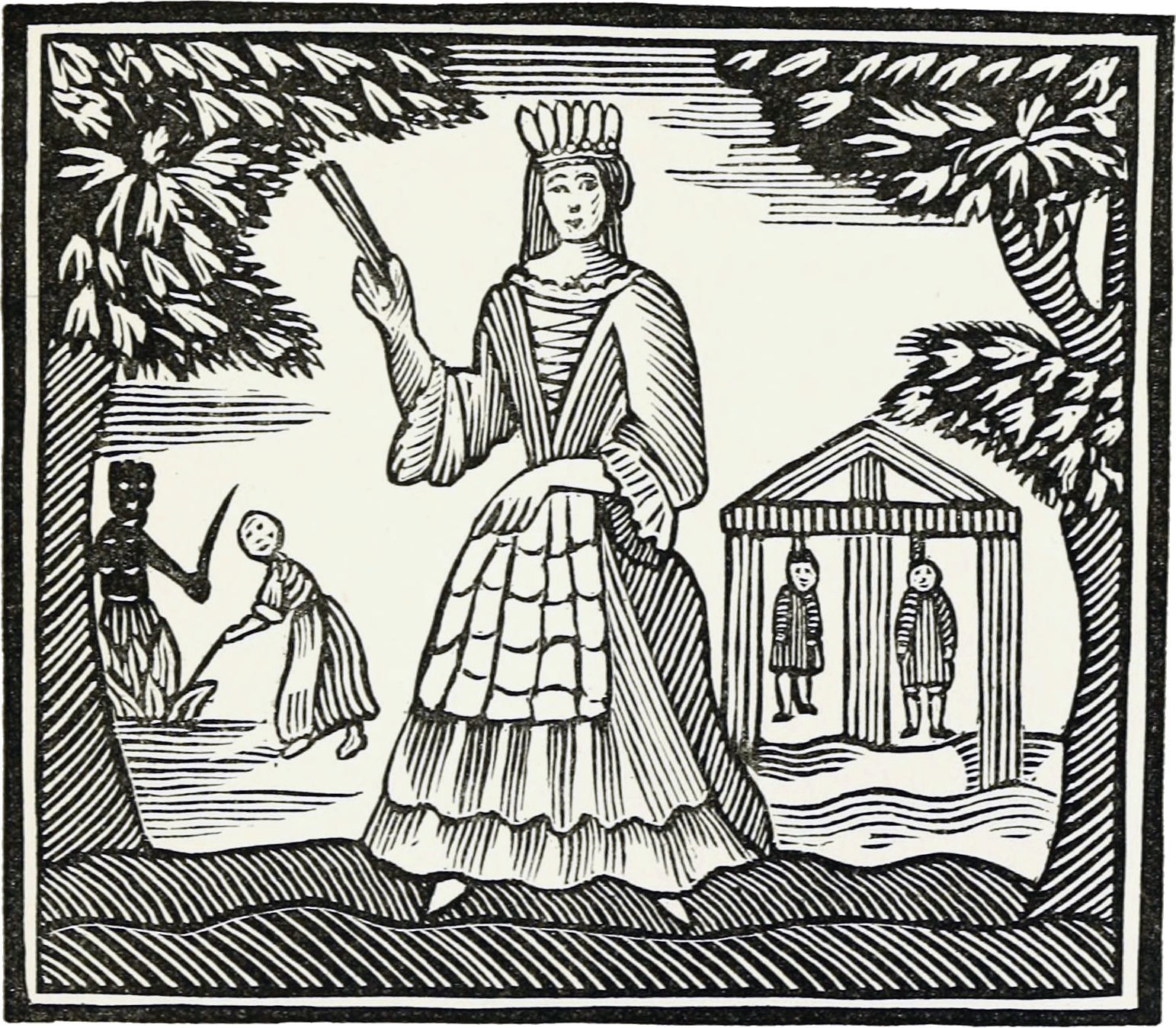 Illustration from an 18th century chapbook reproduced in Chap-books of the eighteenth century by John Ashton (1834).